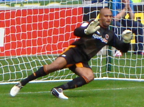 Carl Ikeme. Image cropped from original at flickr.